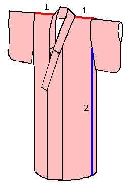 Katayama (1) and Wakisen (2) of Nagagi, which is one of Kimono, in stylized view.